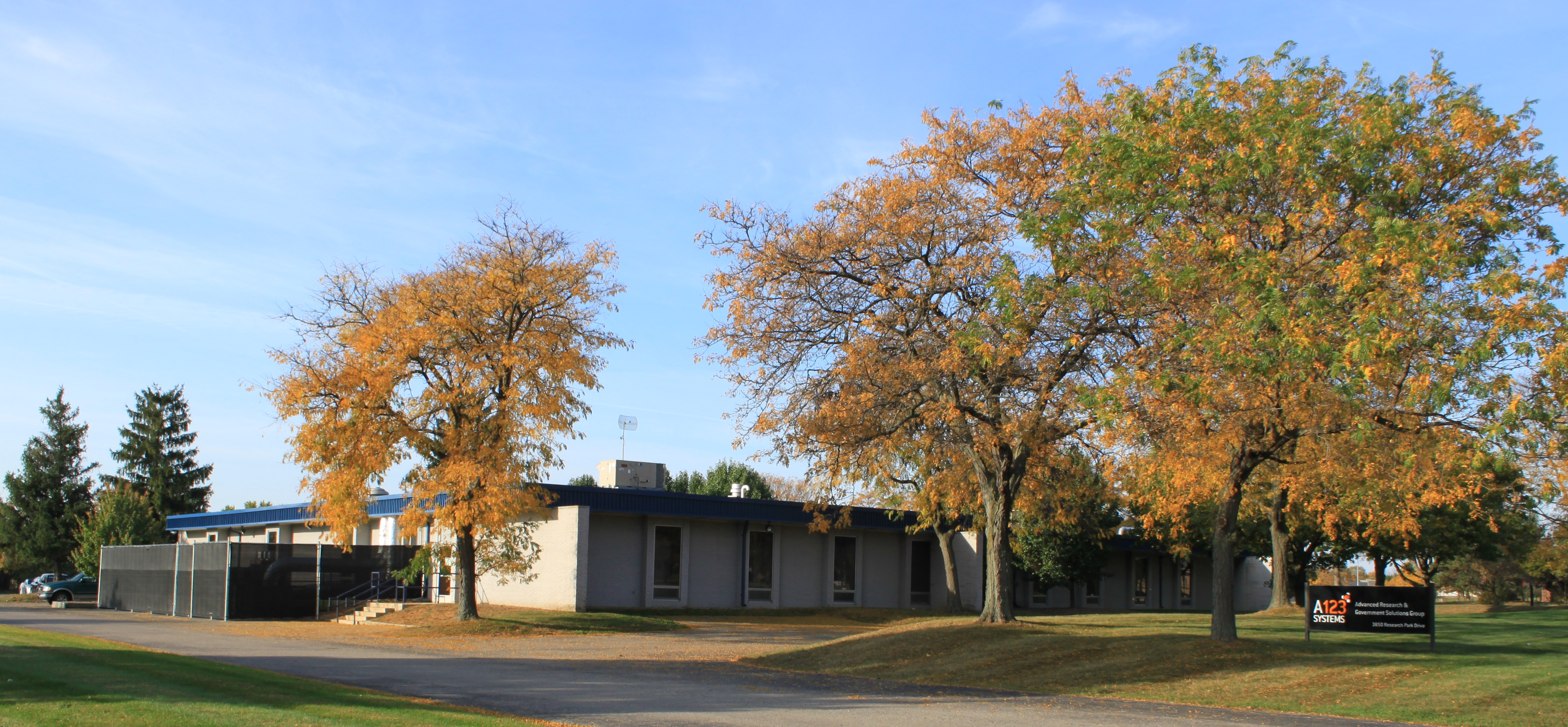 A123 Systems Advanced Research and Government Solutions Group building, 3650 Research Park Drive, Ann Arbor, Michigan